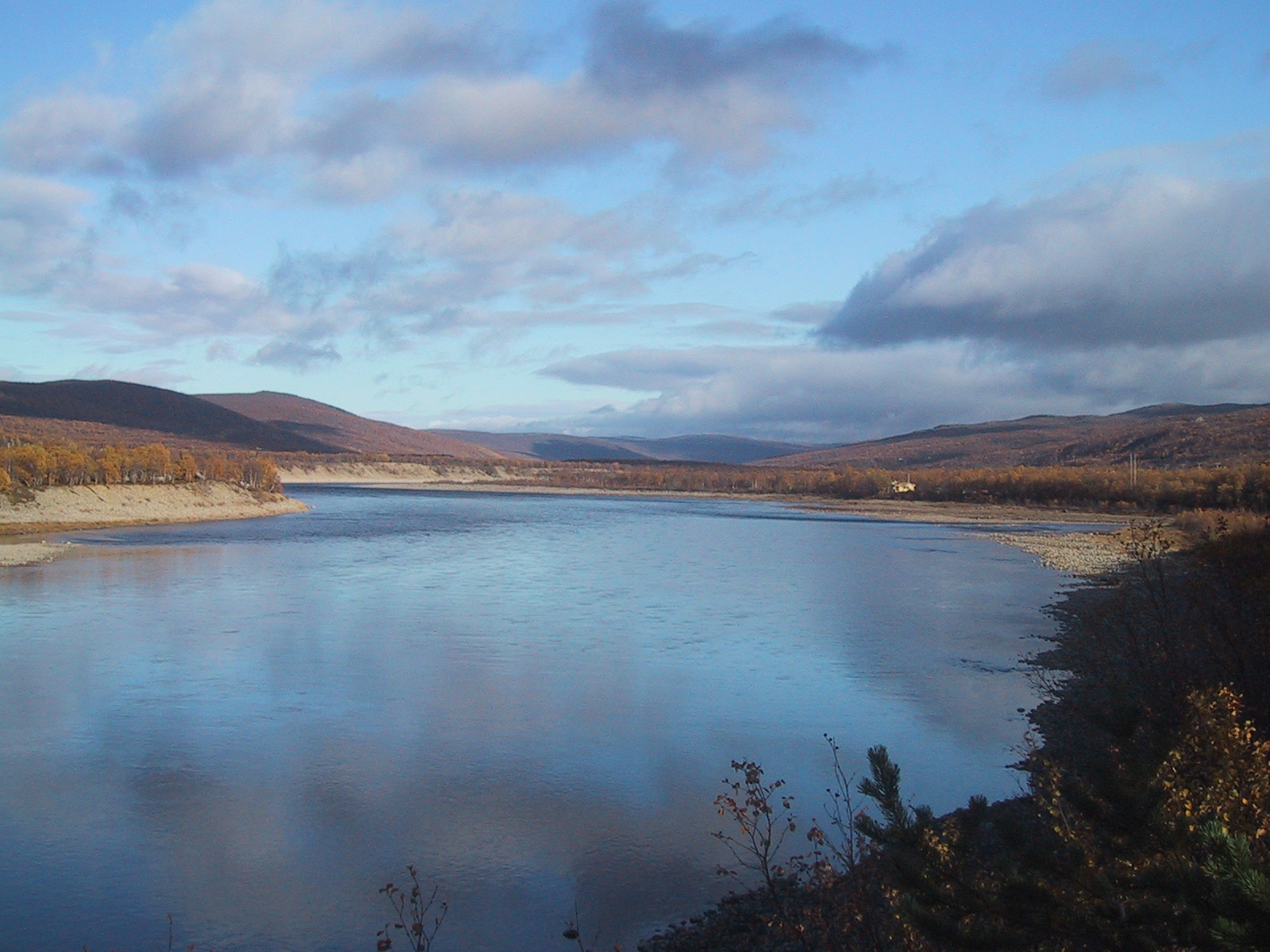 Tenojoki river in Utsjoki, Finland